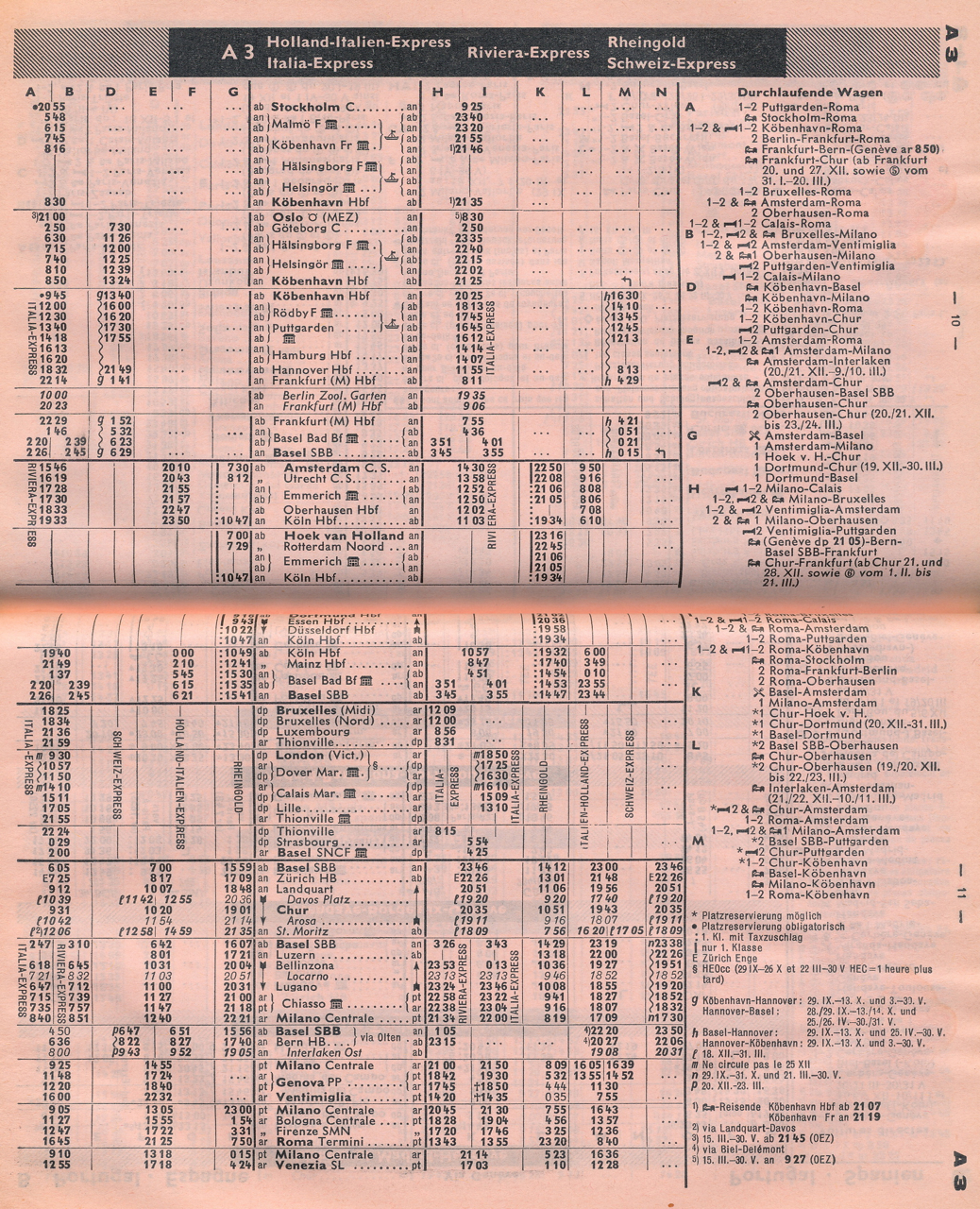 Route tables A3 of the winter 1963/1964 Swiss official timetable (mail edition); "Holland-Italien-Express", "Italia-Express", "Riviera-Express", "Rheingold" and "Schweiz-Express" international trains are indicated.